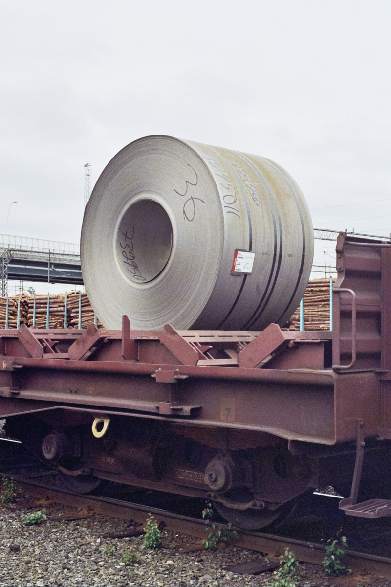 A rolled steel coil (possibly by Rautaruukki) in the VR freight yard at the city of Oulu in Finland.